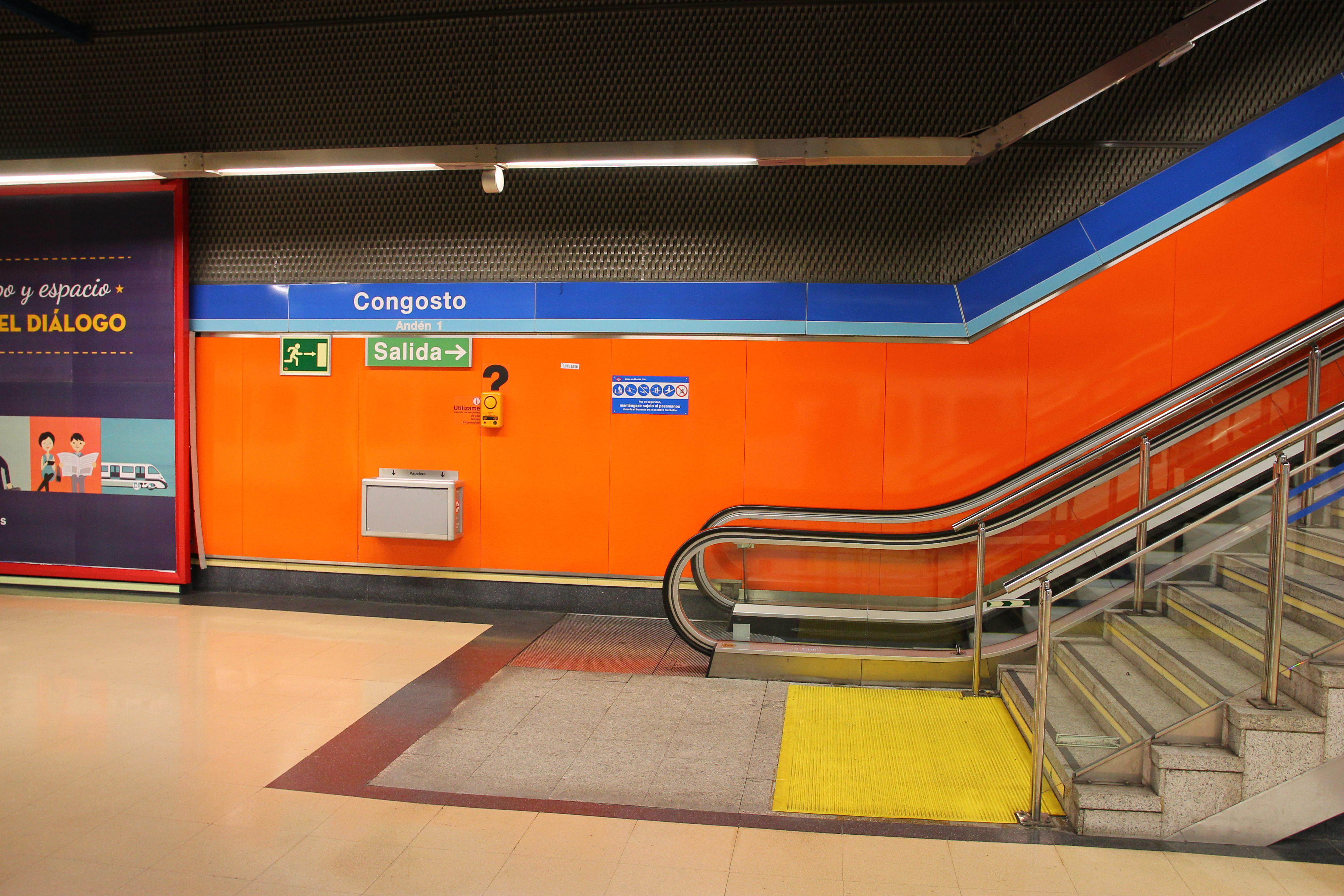 Congosto station. Madrid Metro.